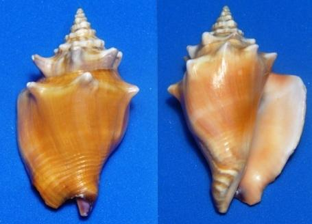 A 86 mm Strombus pugilis L. 1758 marine gastropod shell from my personal collection.